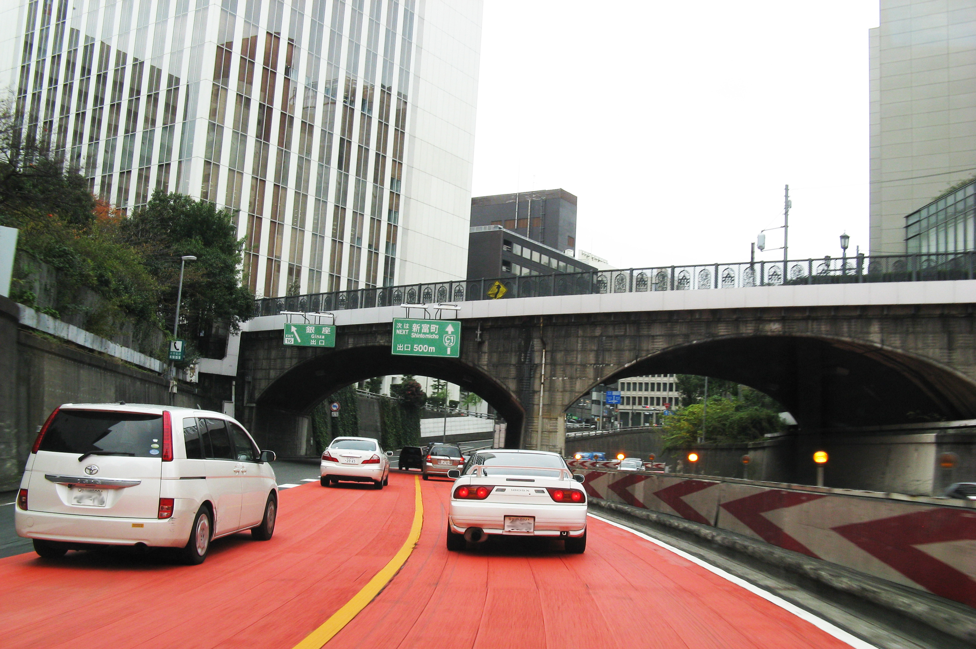 I took this photo.